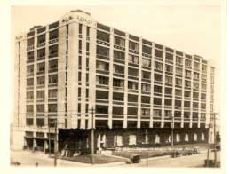 The Robert Simpson Co. Western Mail Order House, Regina SK, ca 1925